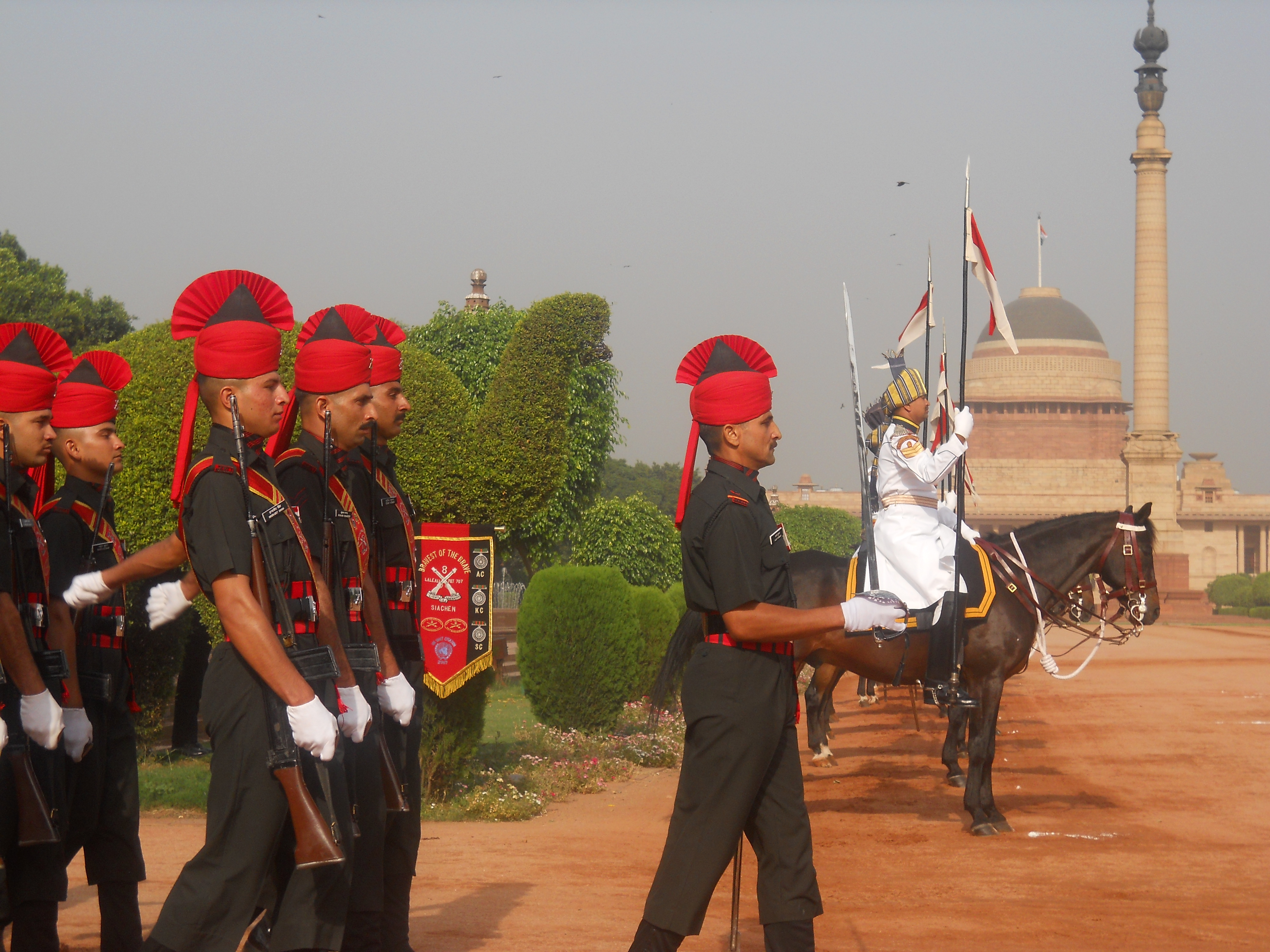 This is a view of Guard Changing Ceremony held at Rashtrapati Bhavan